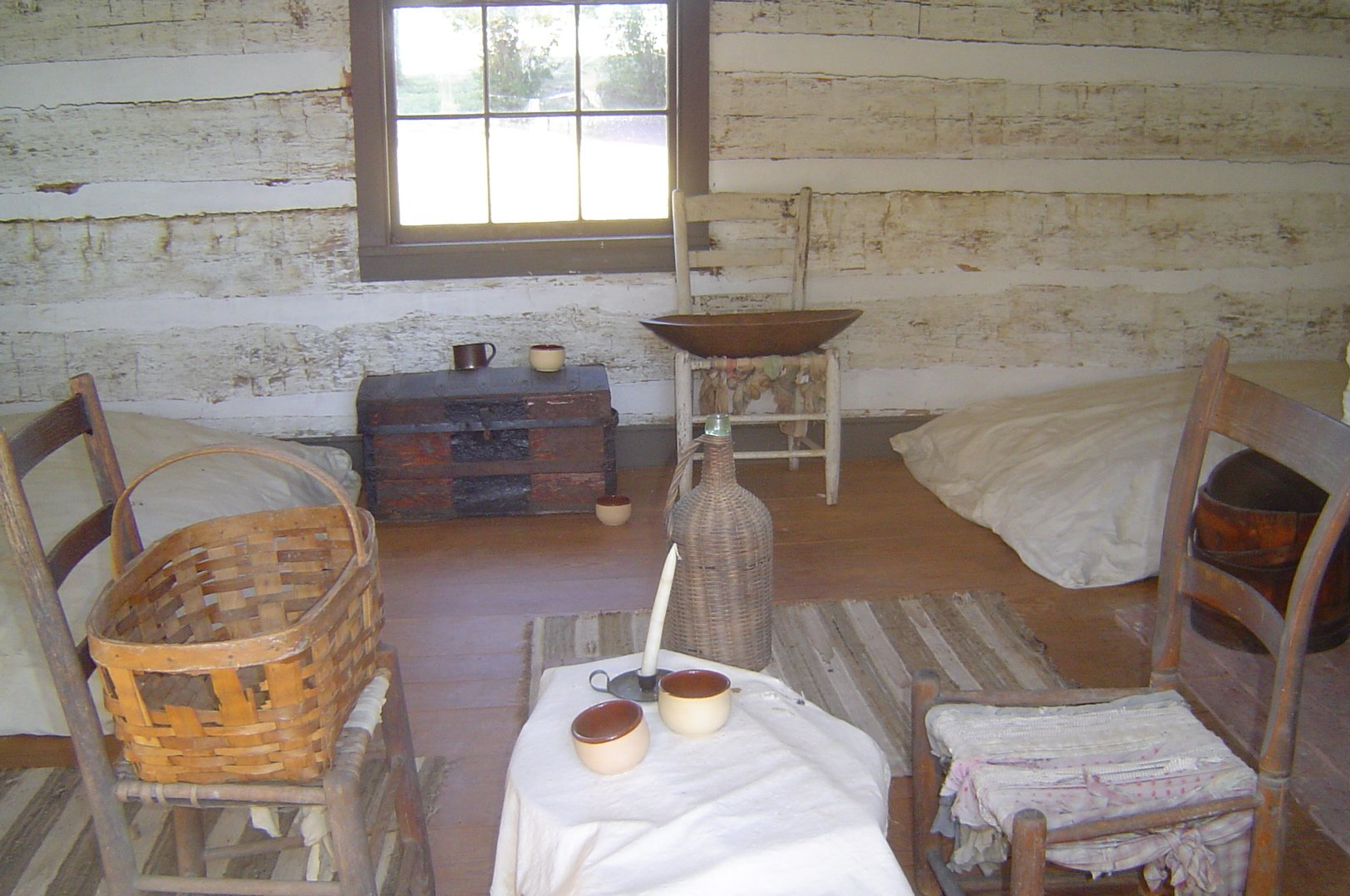 Appomattox - Clover Hill Tavern slave quarter interior